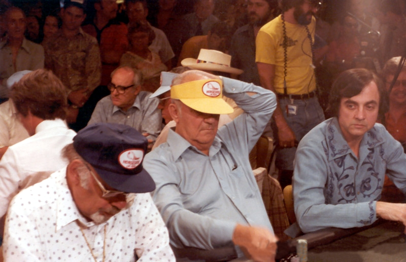 Sailor Roberts at the 1979 World Series of Poker